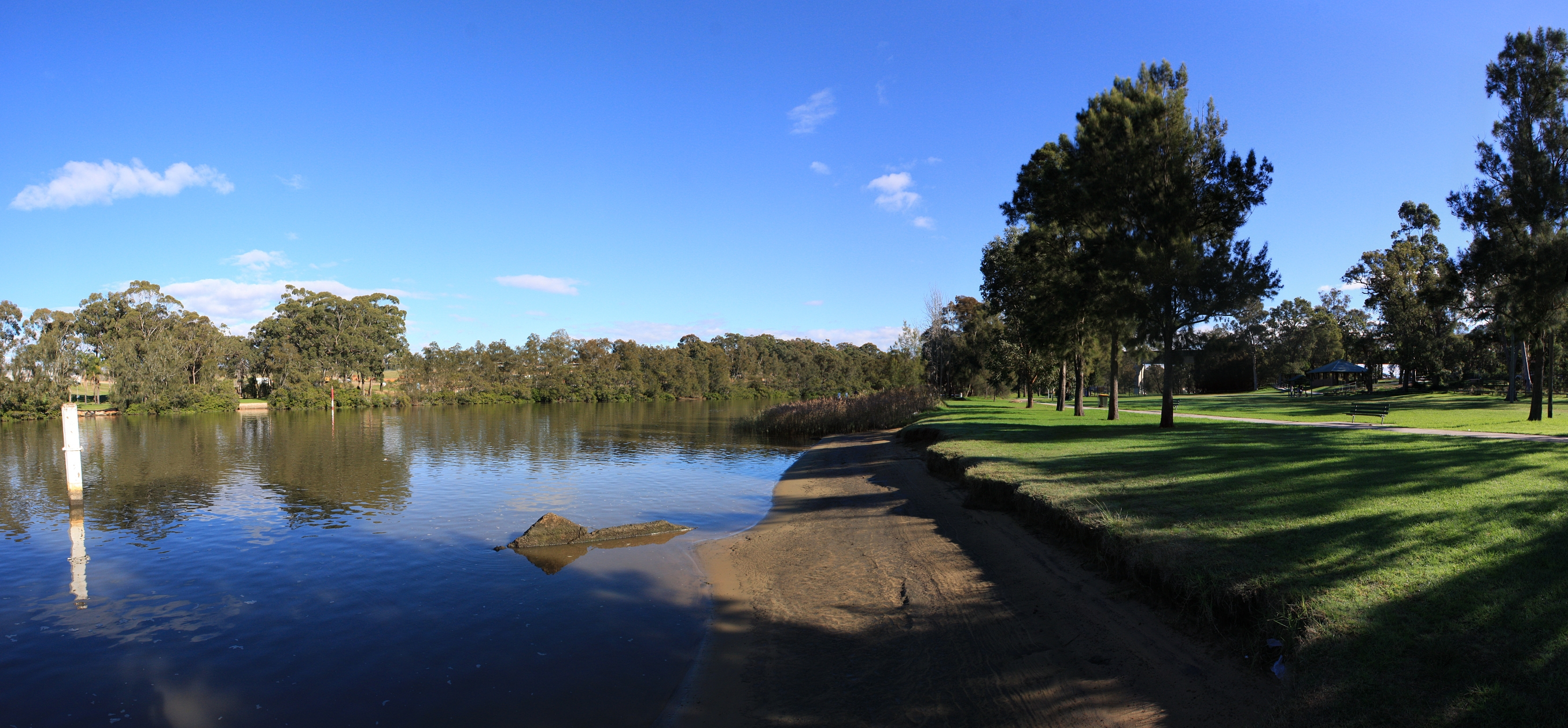 Georges River, East Hills, New South Wales